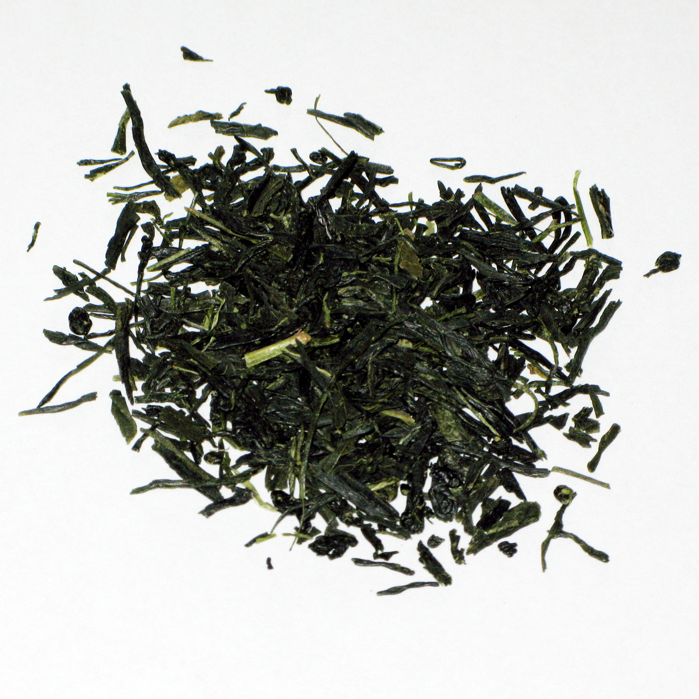 Gyukuro tea